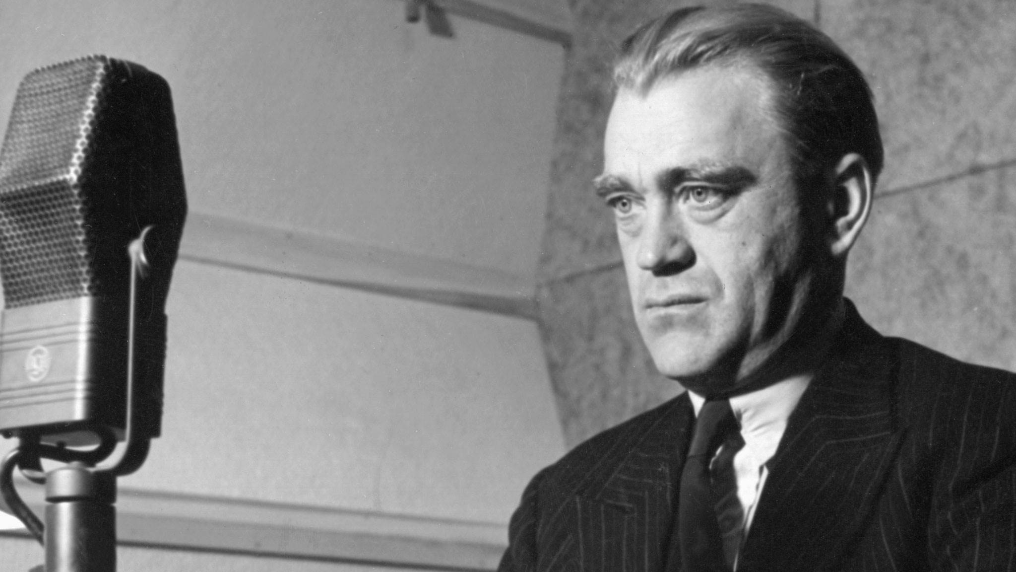 Vilhelm Moberg in 1937